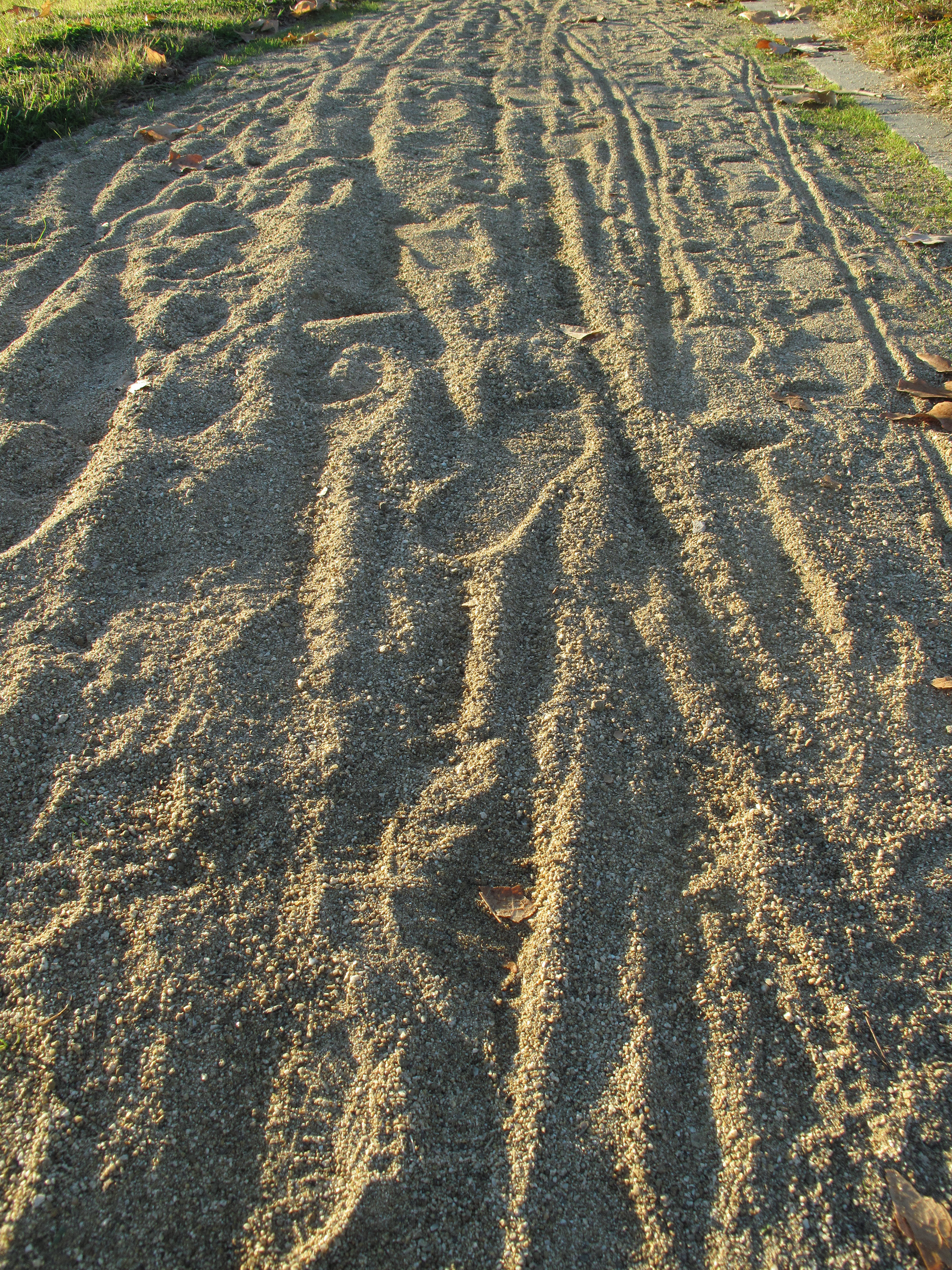 Bike and foot path made of decomposed granite, showing footprints and bicycle tire tracks. Location is on the side of Coldwater Canyon Boulevard, just north of Chandler Boulevard, San Fernando Valley (Los Angeles), California